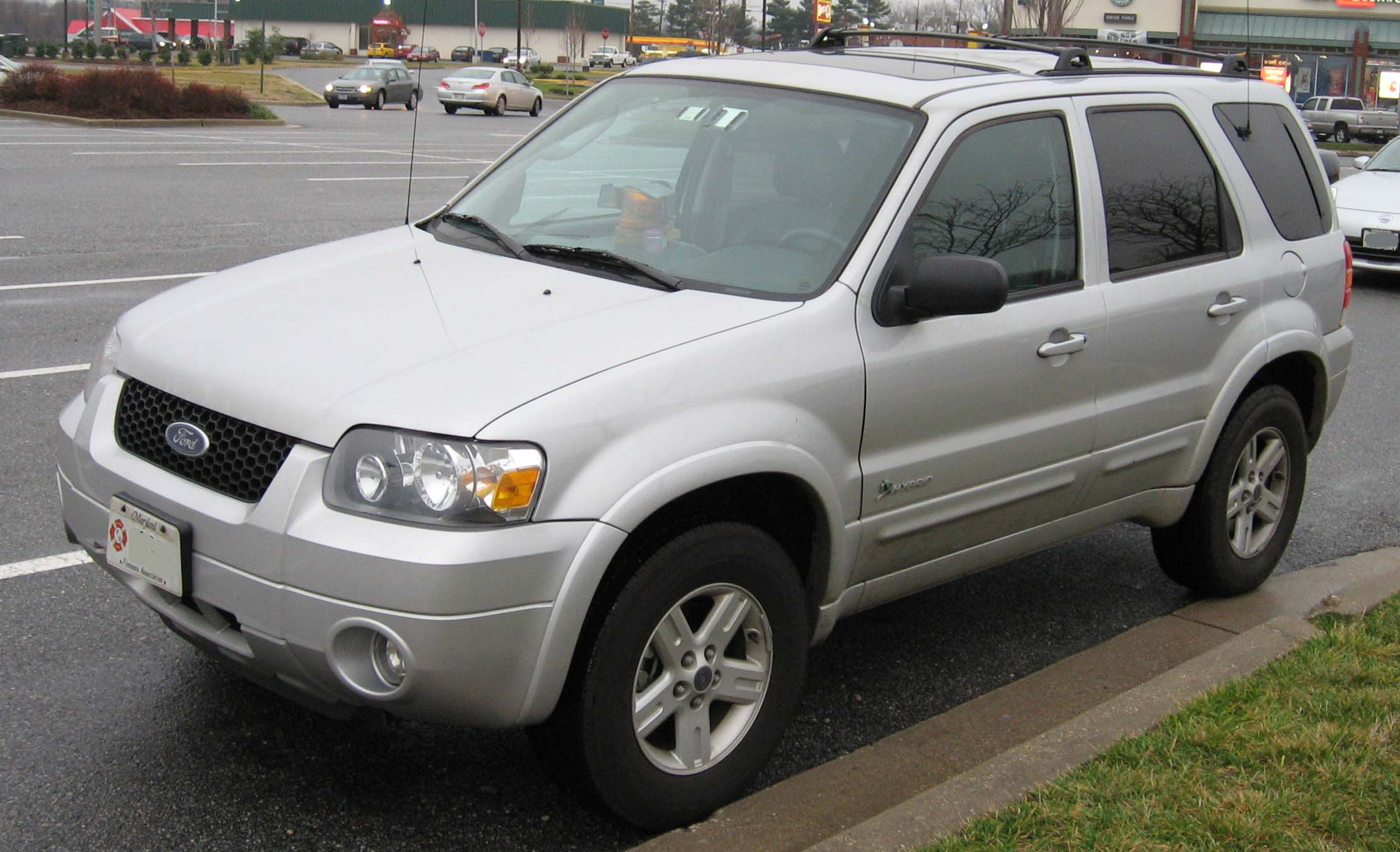 2005-2007 Ford Escape Hybrid photographed in USA.